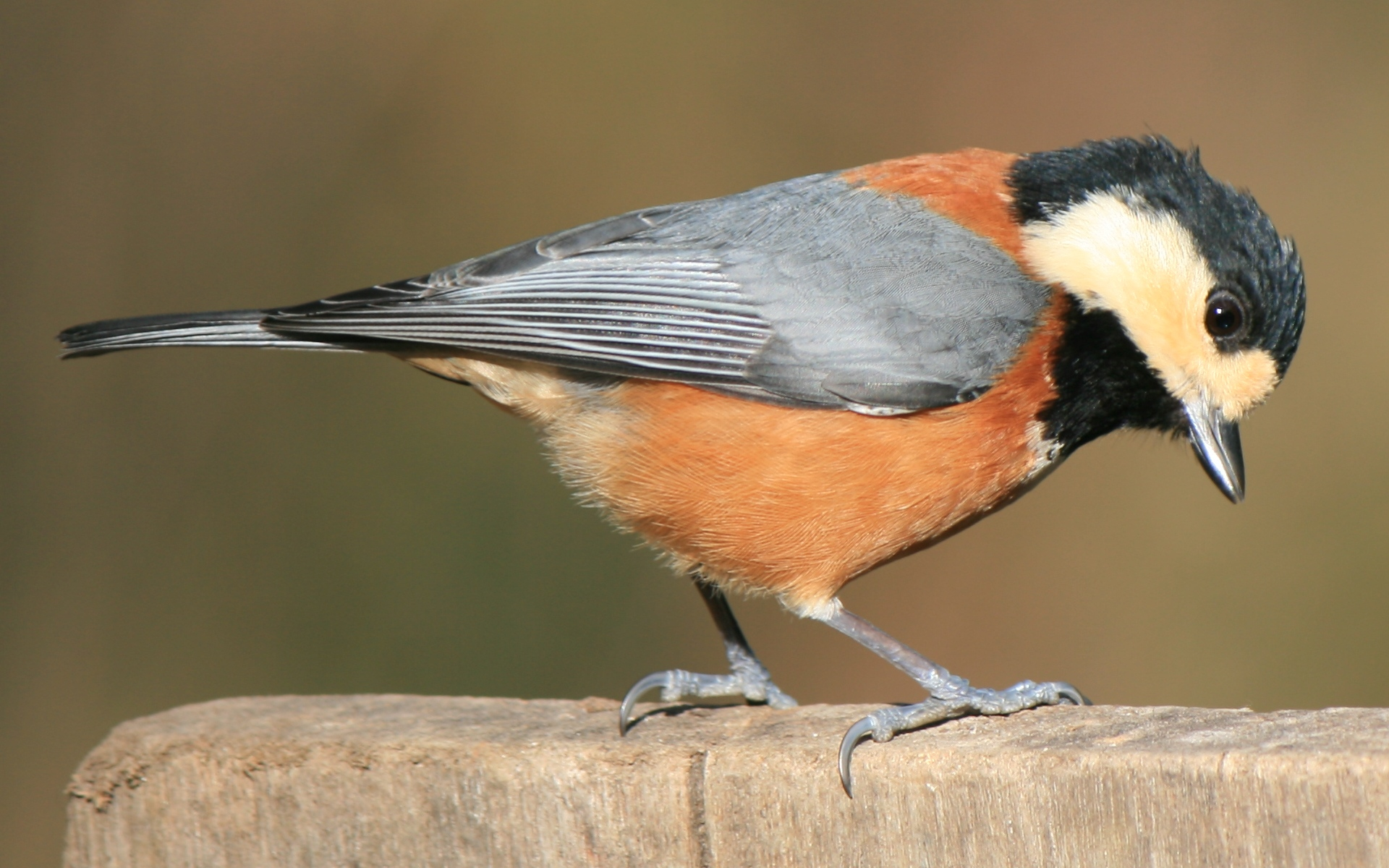 Poecile varius (Varied Tit) on plate in Japan